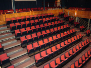 Audience chamber of the Duke Power Theatre. This theatre is located at Spirit Square and is operated by the North Carolina Blumenthal Performing Arts Center.